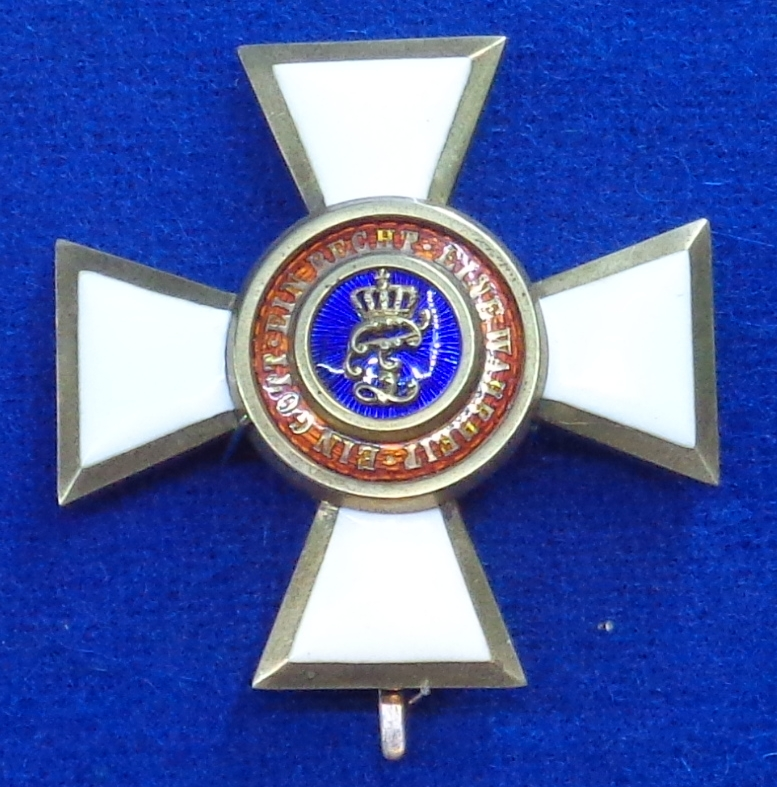 House and Merit Order of Peter Frederick Louis, Officer's badge, 1903-1914. Grand Duchy of Oldenburg. The exhibition of the Tallinn Museum of Orders of Knighthood, Estonia.